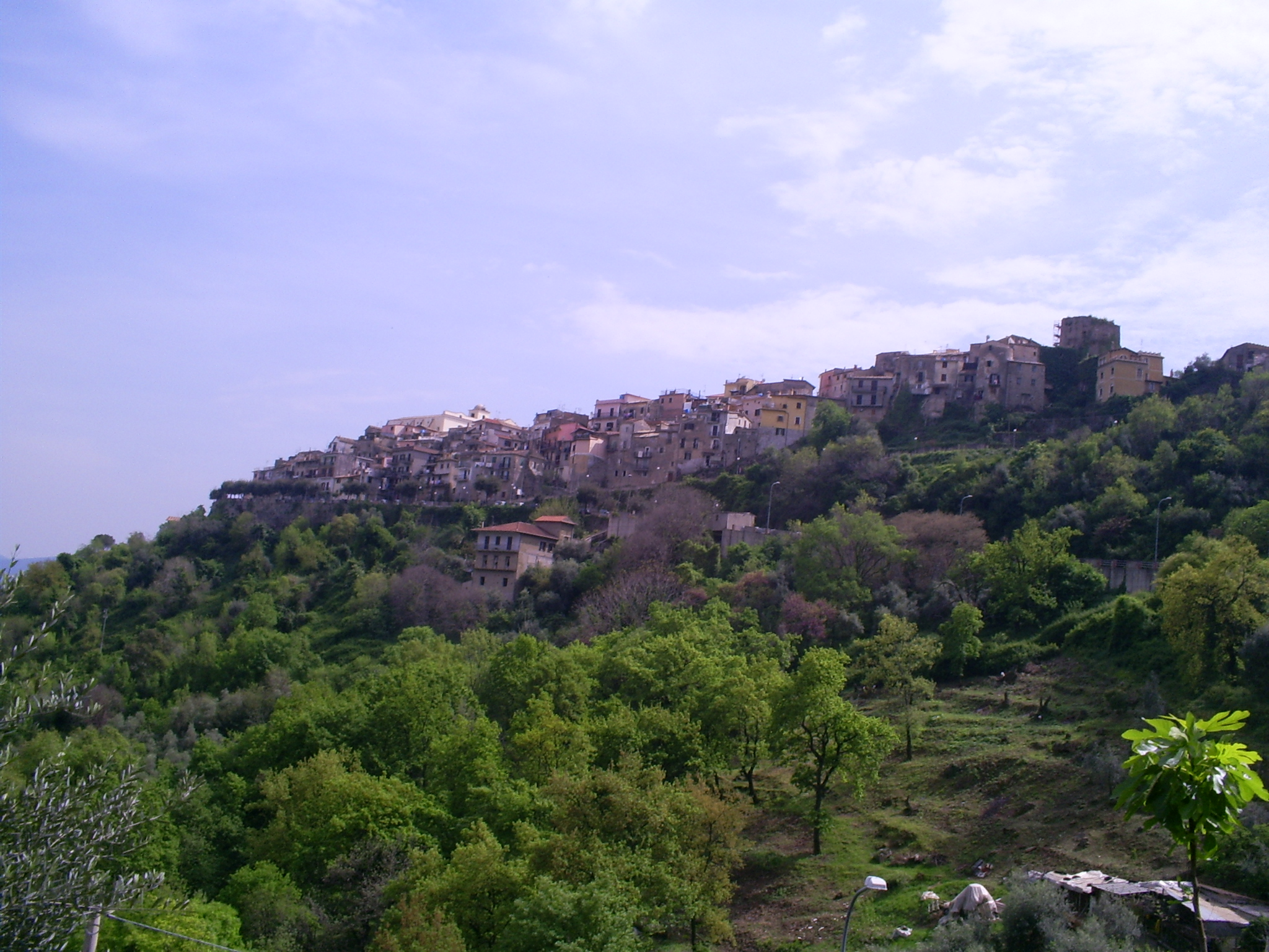 Monte San Biagio (LT) Italy - View from east side